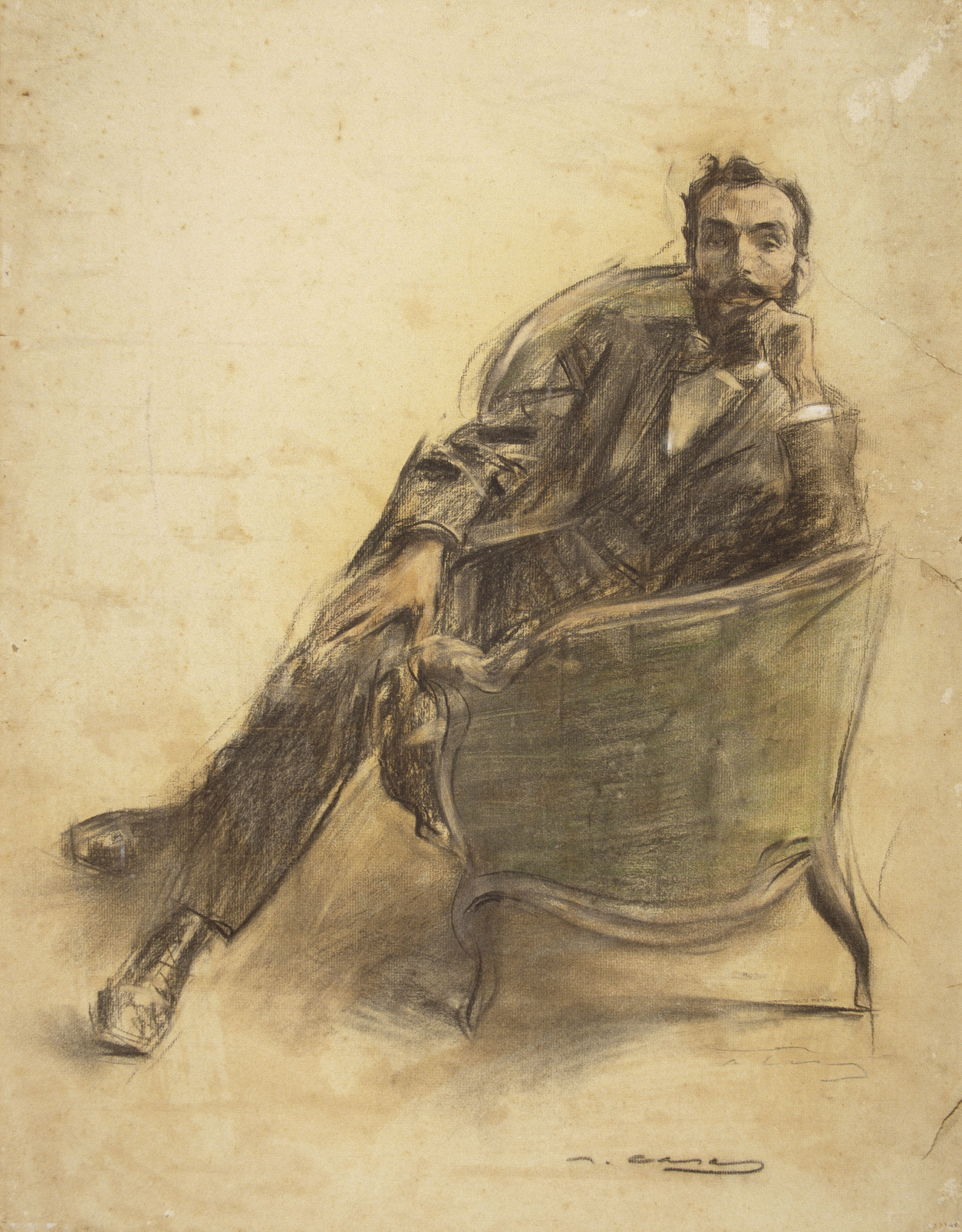 Portrait by Ramon Casas conserved at MNAC in Barcelona.